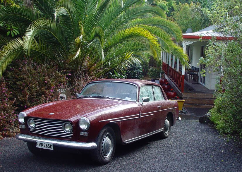 I took this photograph. The registration number has been altered using photoshop. I release it into the public domain. Noho Moana, Photographer